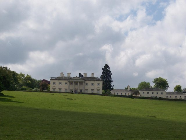 Shardloes Mansion This is Shardloes, an 18th century mansion which is now flats and apartments. You can read more about it at the following website